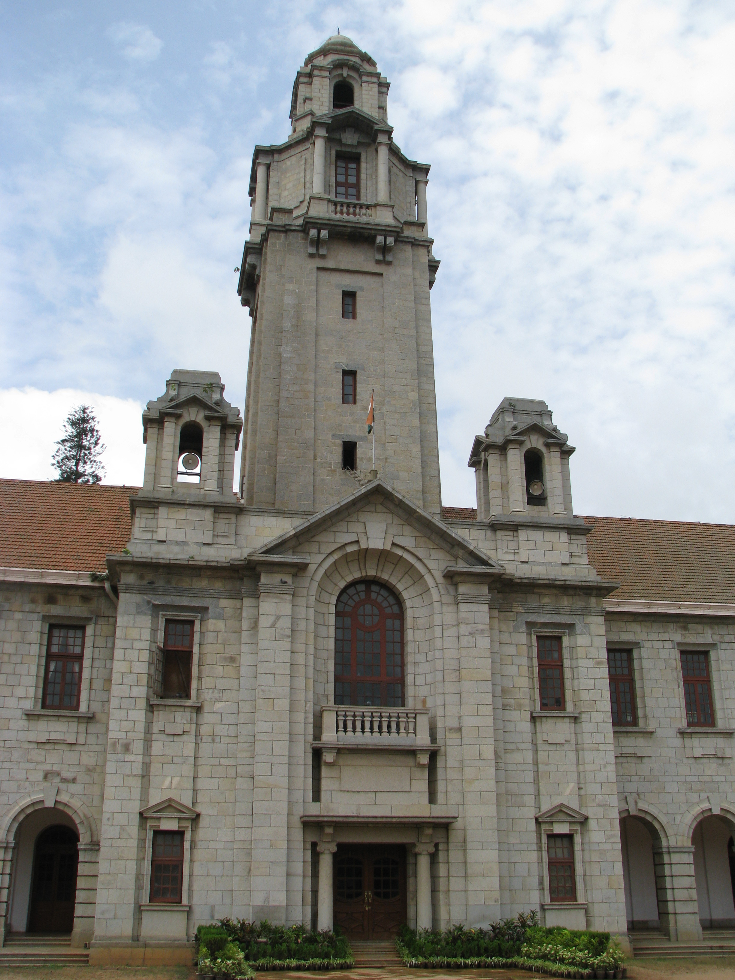 Administrative building of Indian Institute fo Science, Bangalore